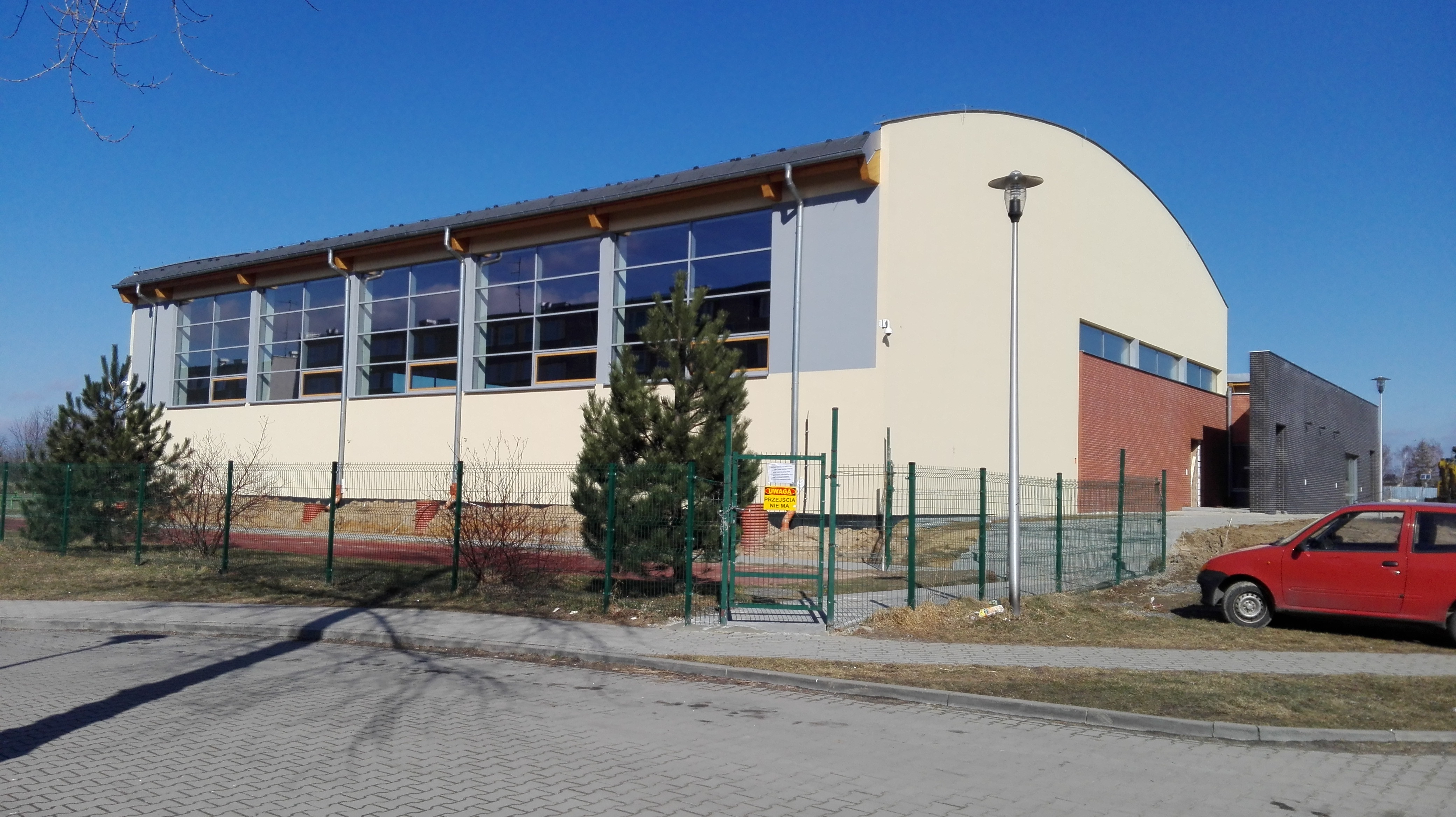 7 Podgórna Street in Prudnik